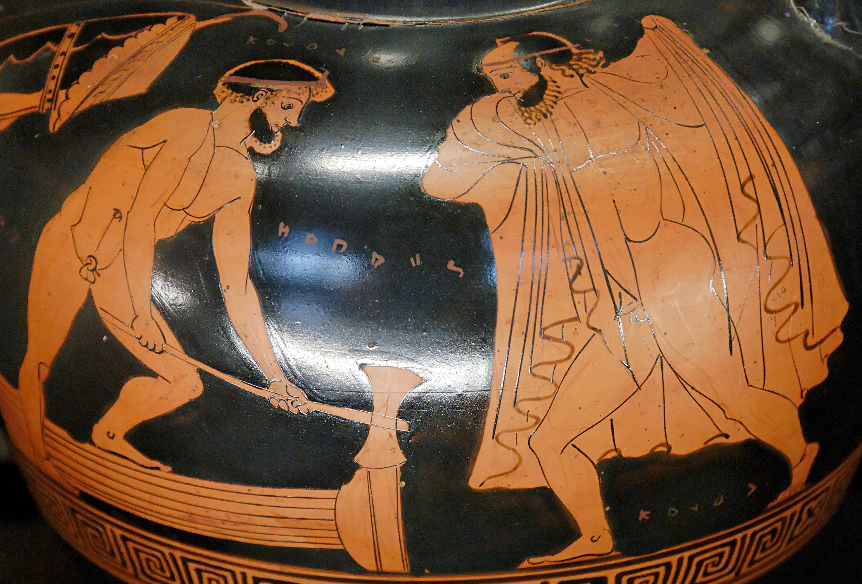 Herakles and Syleus. Attic red-figure amphora, 480–470 BC. Found in Italy.